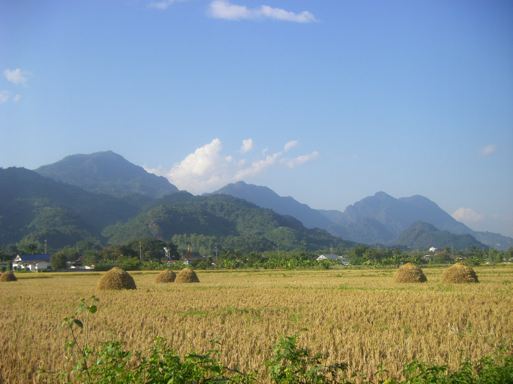 Doi Nang Non, shot from Ban Huay Krai, Chiang Rai, Thailand